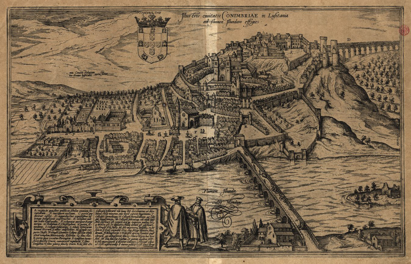 View of the city of Coimbra, Portugal, made by Frans Hogenberg ca. 1598, and published by Georg Braun (1541-1622) in Civitates Orbis Terrarum, vol. V (1598). Original latin description: Illustris civitatis Comimbriae in Lusitania ad flumen Illundam effigies.